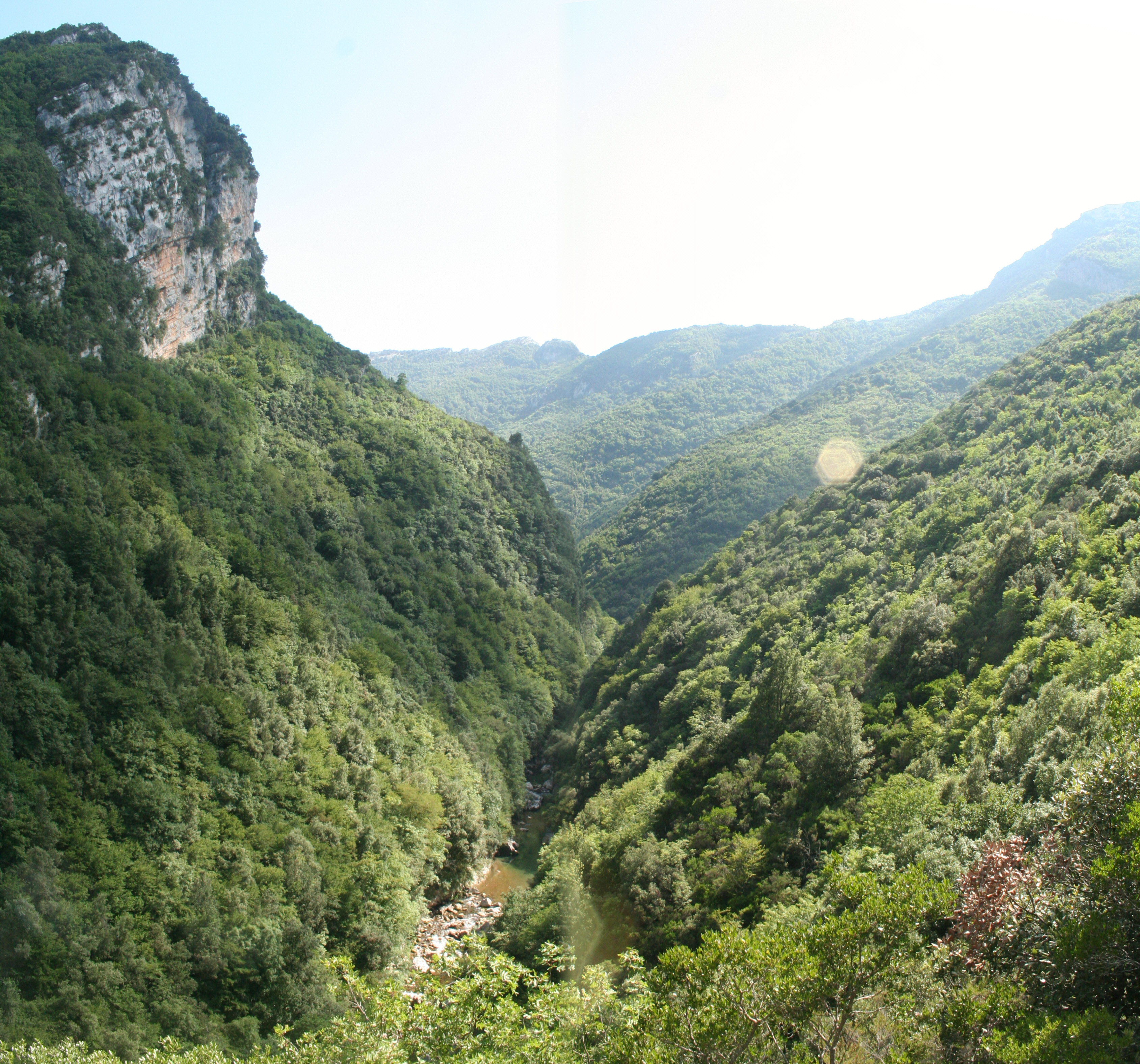 Calore valley at Felitto, Italy